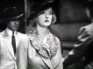 Cropped screenshot of Bette Davis from the trailer for the film Dangerous.